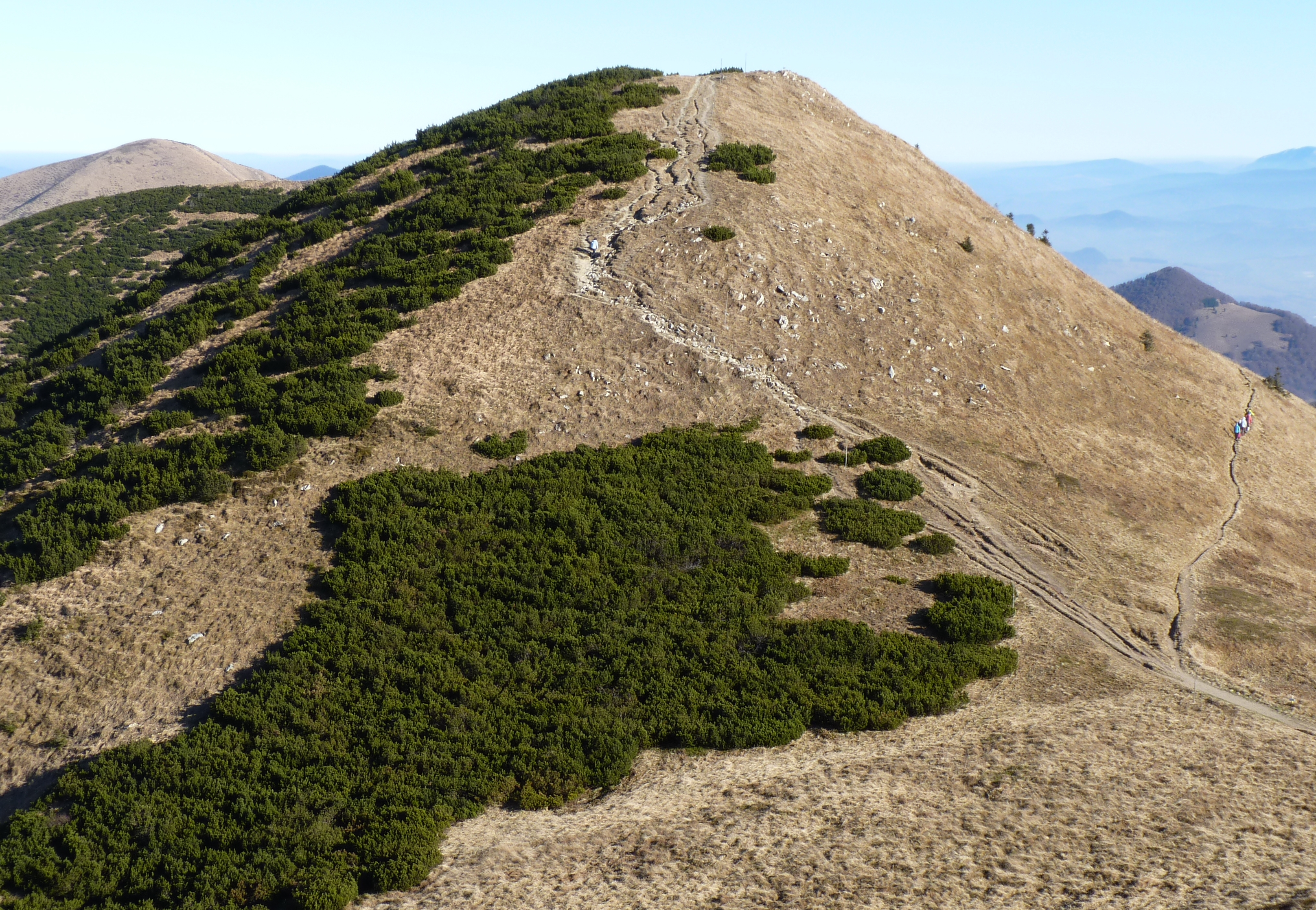 National Park Lesser Fatra, Slovakia